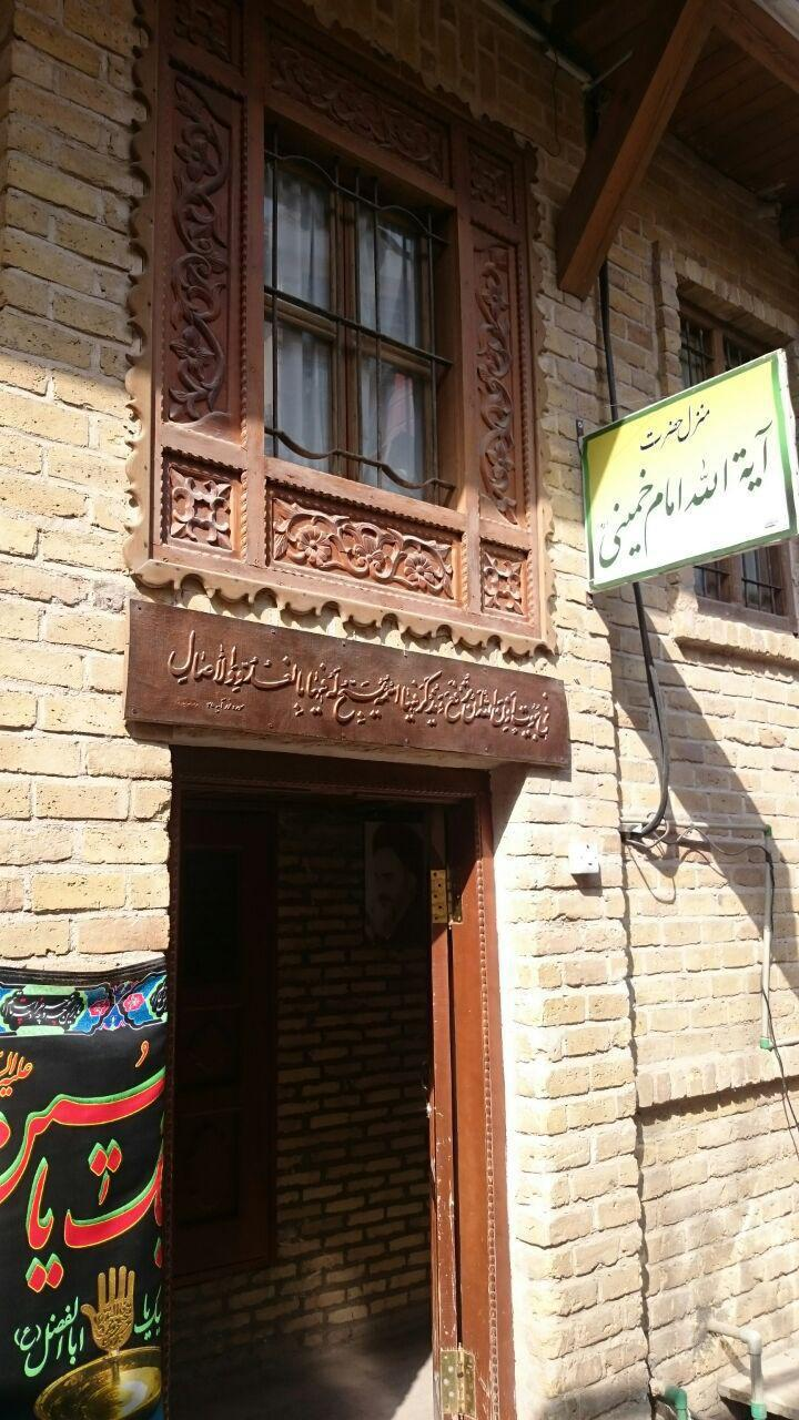 The Entrance of House of Ayatollah Sayyed Roohollah Khomeini in Najaf Al-Ashraf- Iraq